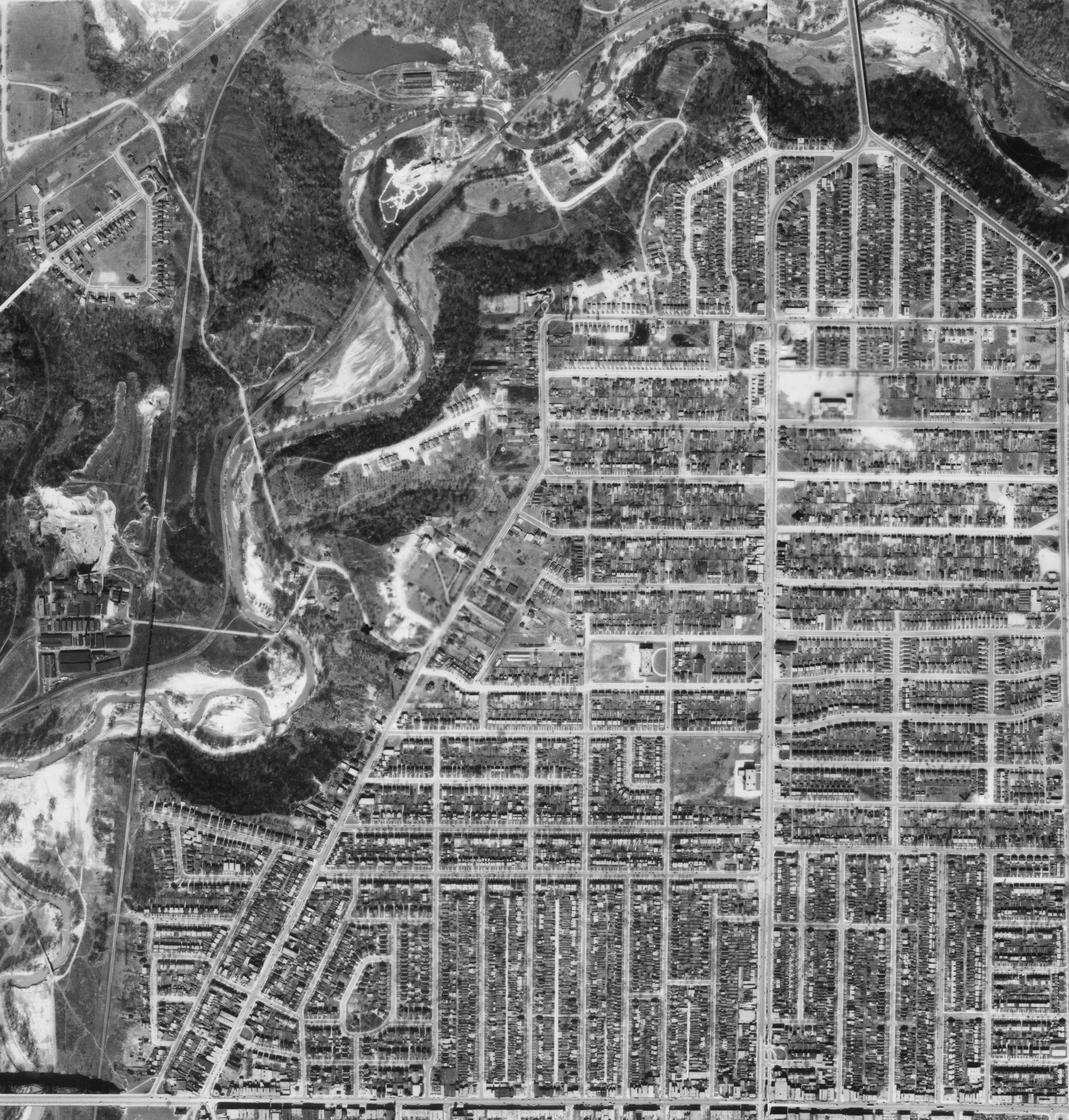 Aerial Photograph of Todmorden (Playter Estate & Pape Village), East York, 1942